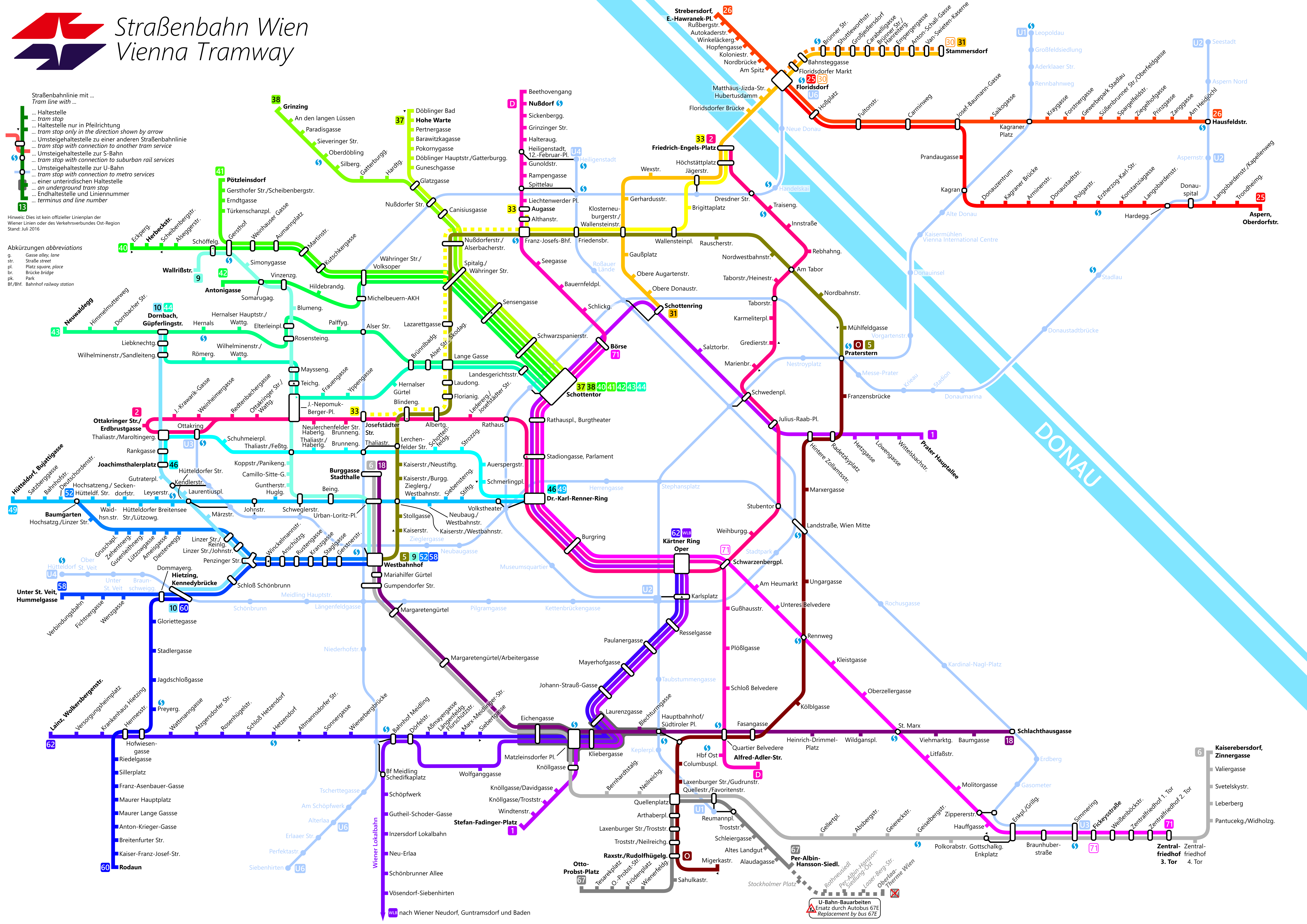 Schematic map of Vienna’s tram system as of July 2016